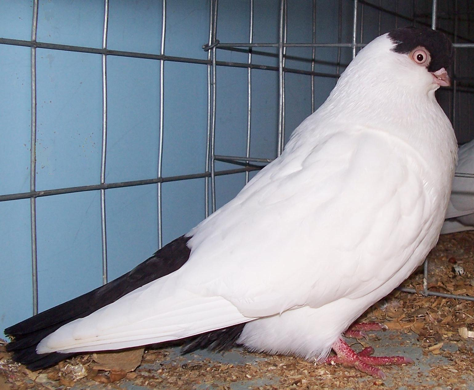 Black Helmet young hen owned by Gordon Jones at 2008 Queensland State Show.